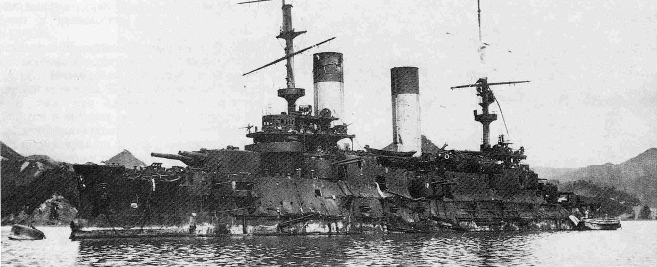 Imperial Russian btattleship Oriol at Maizuru, 1905.